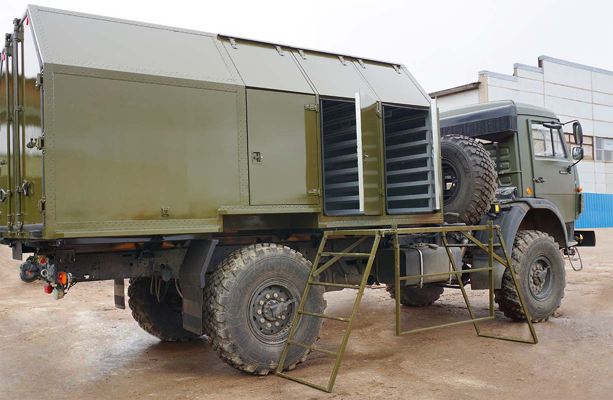 AFK-3